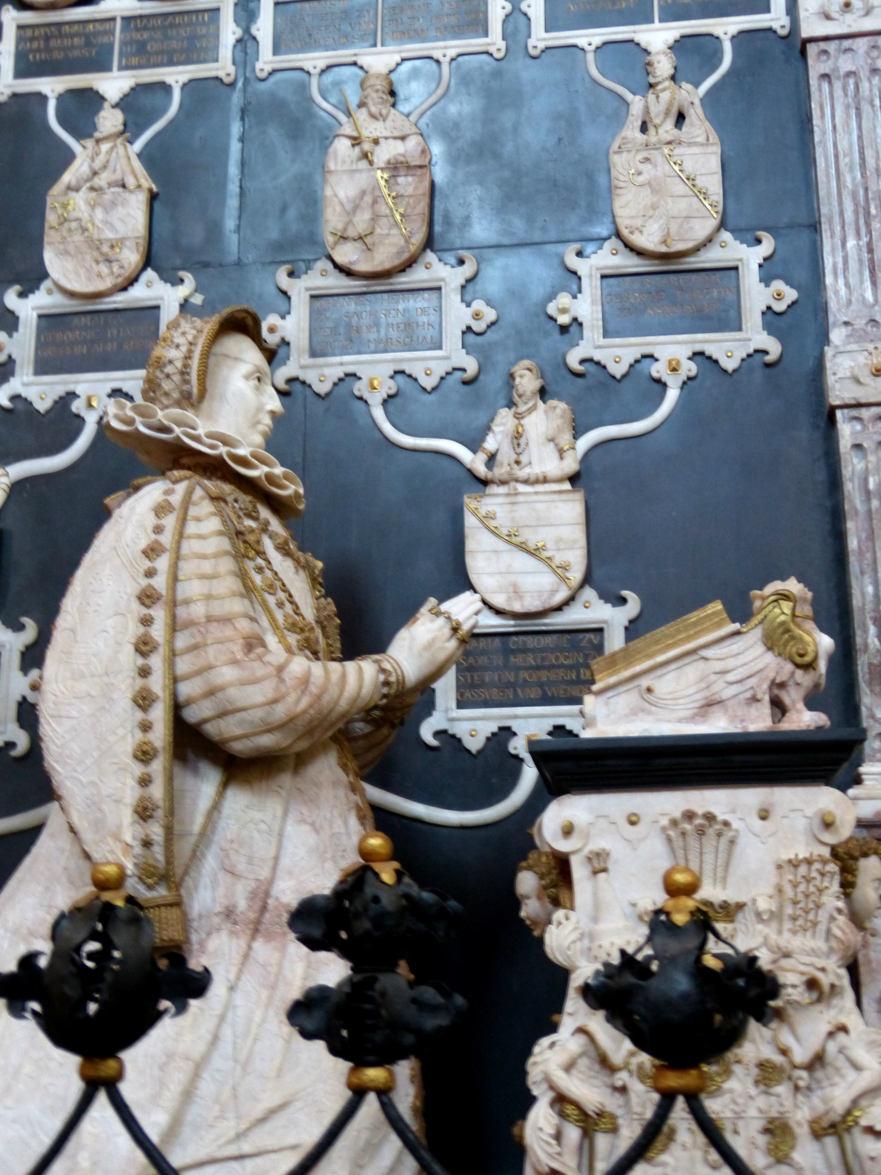 Güstrow ( Mecklenburg-Vorpommern ). Cathedral: Grave ( 1585 ) of Ulrich, Duke of Mecklenburg, by Philipp Brandin - Statue ( 1599 ) of Ulrich's second wife Anne of Pomerania, by Claus Midow and Bernd Berninger.